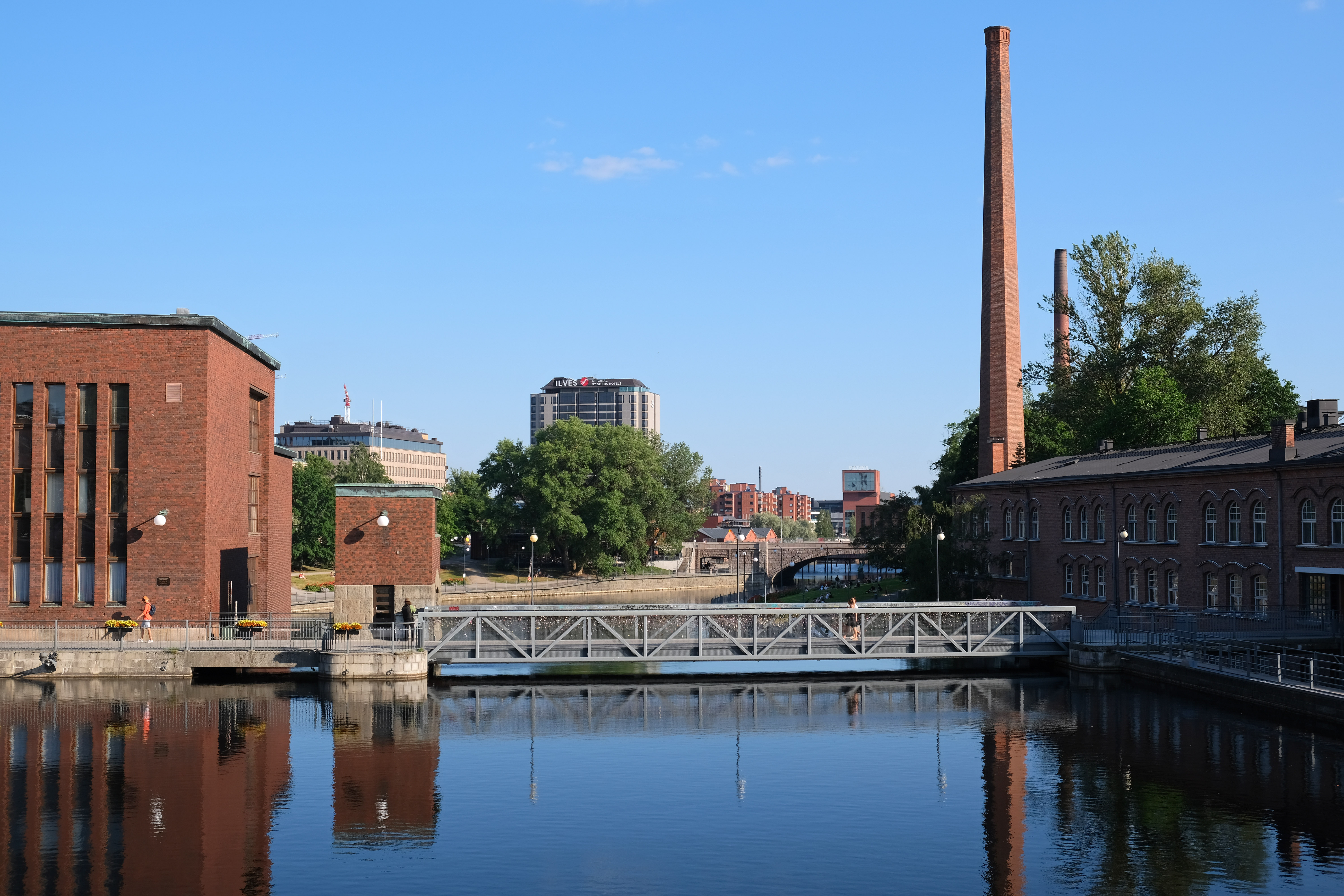 View from Satakunnansilta Bridge, Tampere: Patosilta and Tammerkoski.